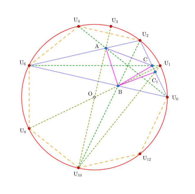 Рисунок содержит все до некоторой степени необходимые построения для доказательства того, что данный треугольник действительно является треугольником Шарыгина.